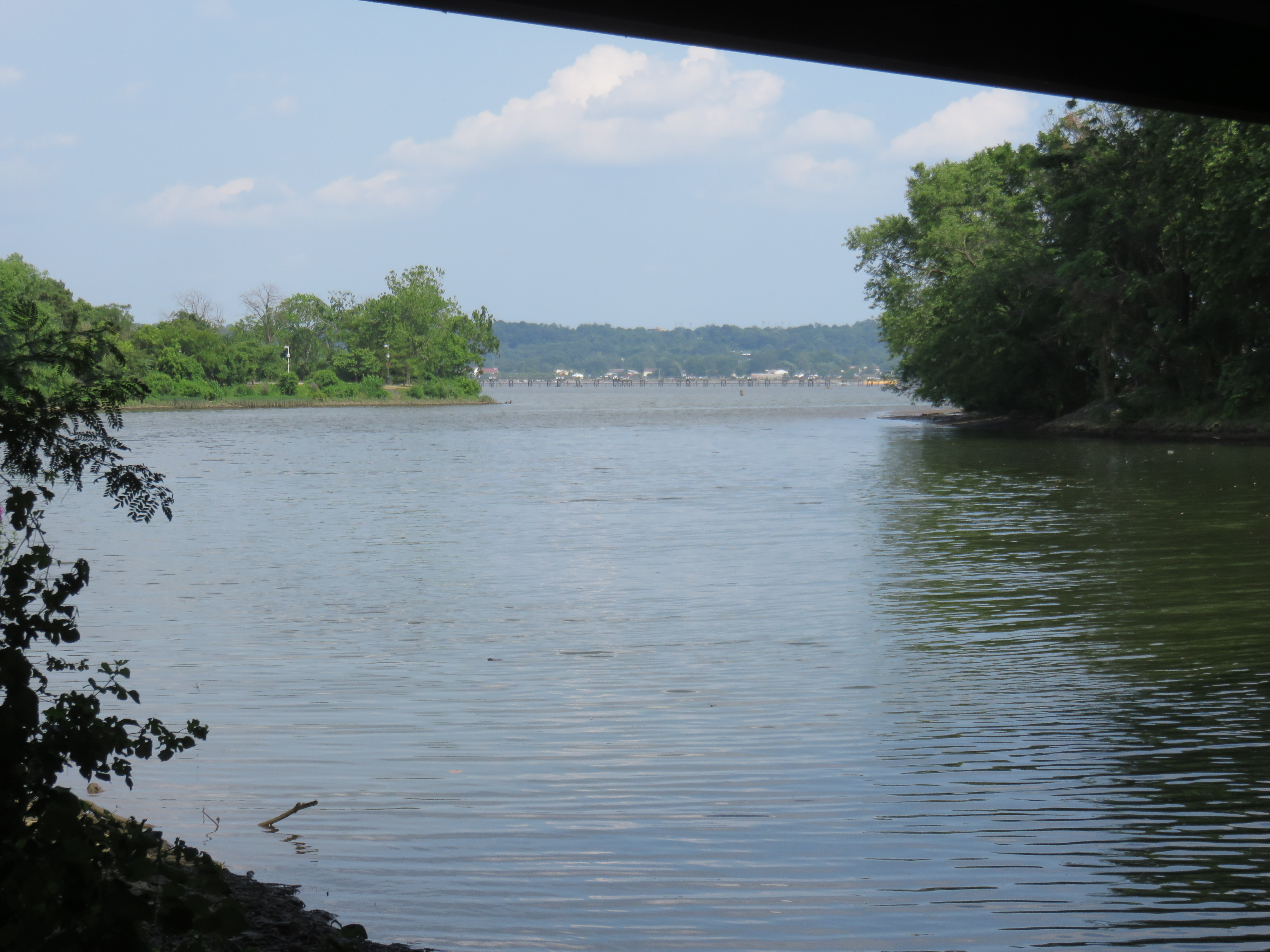 Mouth of Four Mile Run in Arlington, Virginia and Alexandria, Virginia in 2020